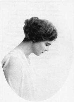 Elinor Wylie c. 1921